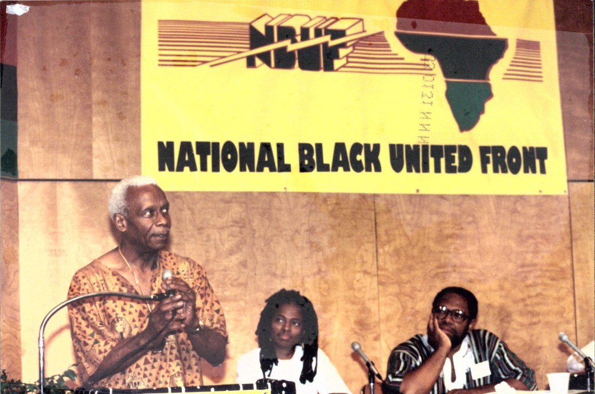 OBS #Struggle #Black #National Black United Front #NBUF 14th Annual National Convention #Save our Children #Speaker #Liberation #Protest